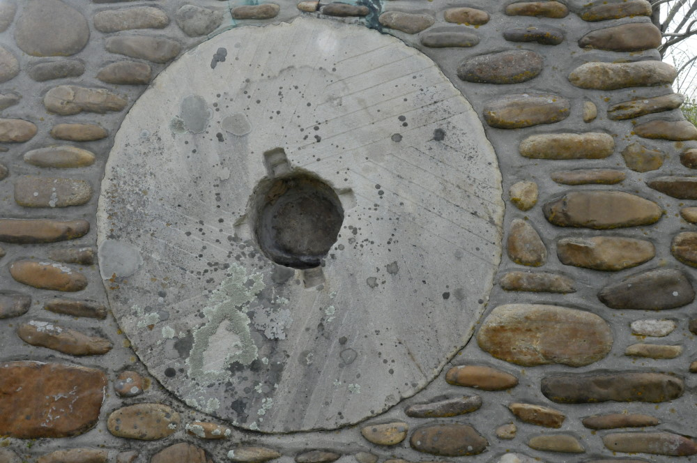 One of three millstones from the mill at Ft. Chiswell which were placed in the monument.